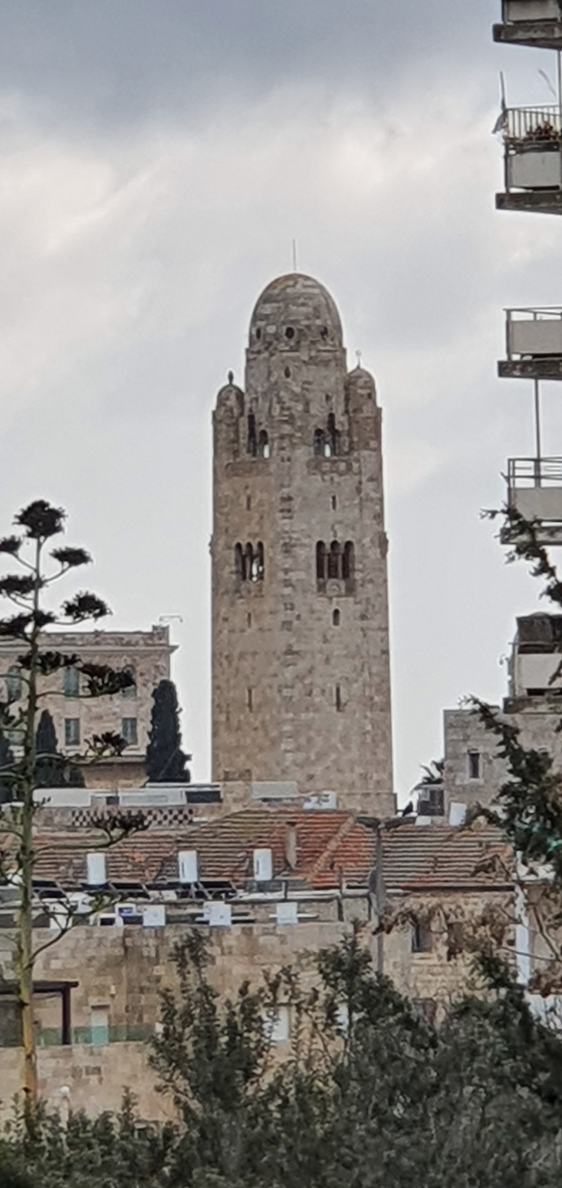 Bell tower with Carillon inside of Jerusalem International YMCA